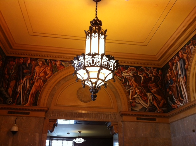 Part of Howard Cook's fresco "San Antonio's Importance in Texas History" in the lobby of the Hipolito F. Garcia Federal Building, San Antonio, Texas. The 16-panel fresco installed between 1937 and 1939 was commissioned by the Treasury Department's Section of Fine Arts.